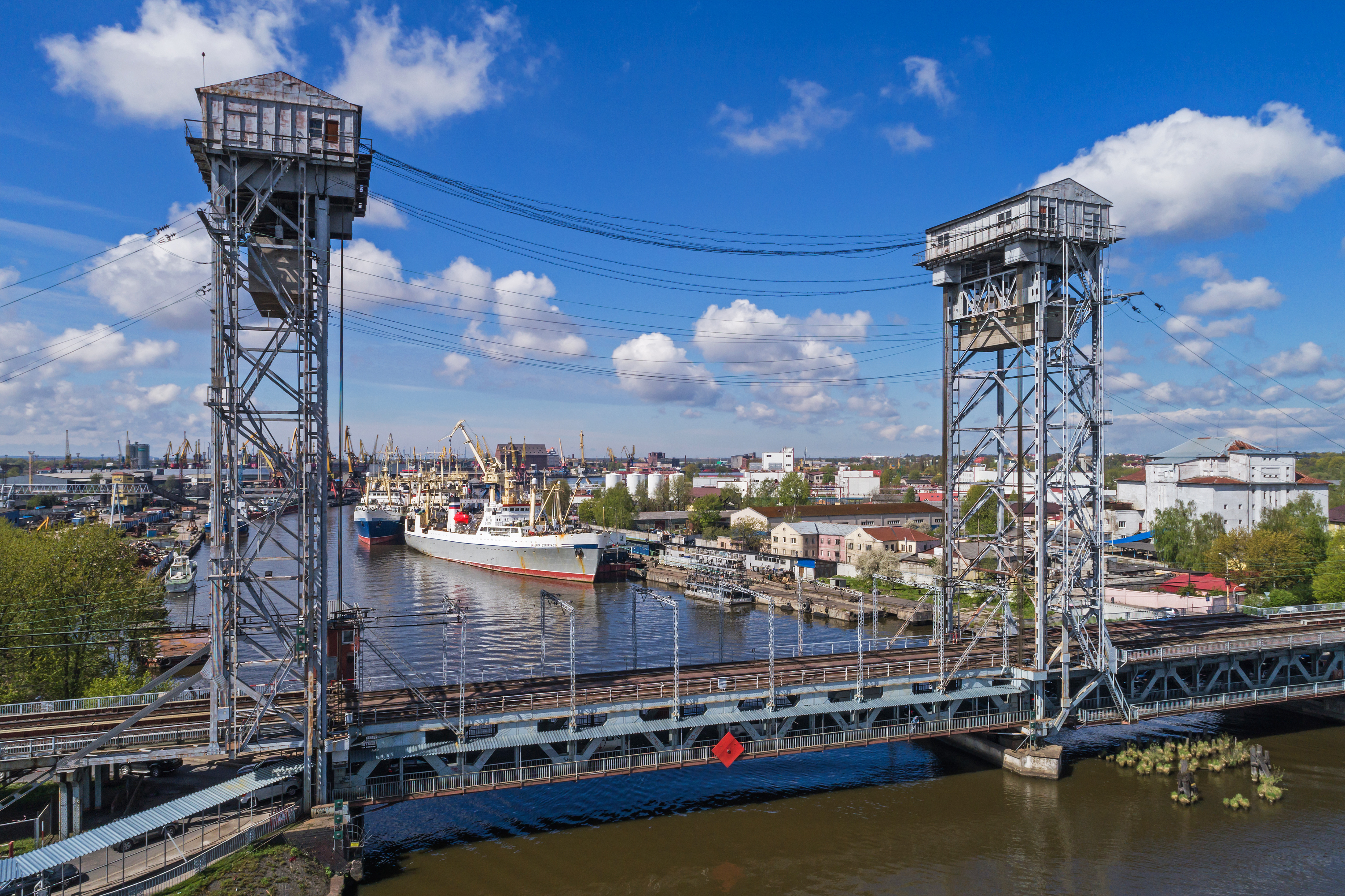 Two Level Bridge (aka Reichsbahn Bridge) in Kaliningrad formerly Königsberg, Kaliningrad Oblast (Russia).